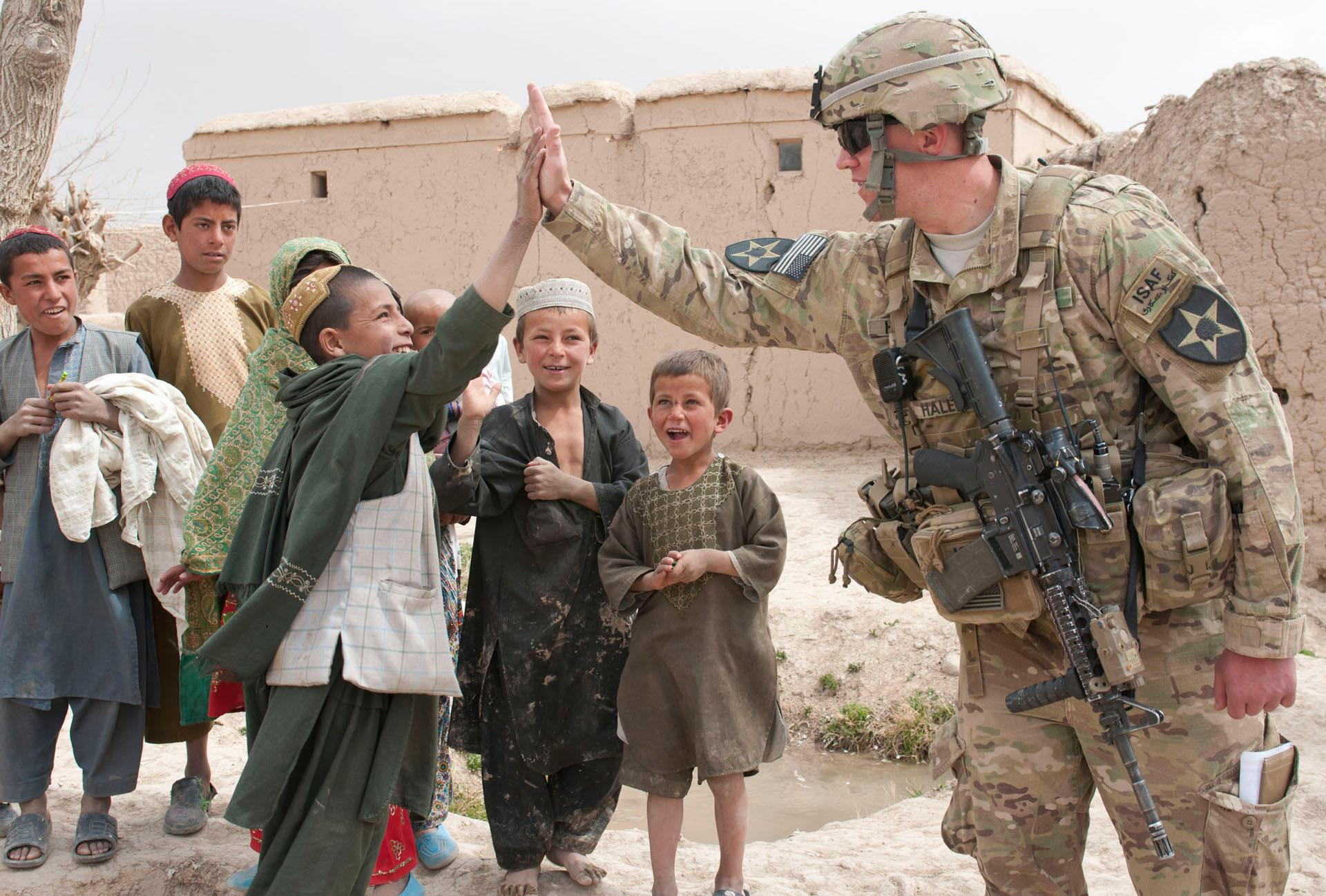 Army 2nd Lt. Steven J. Haley, platoon leader in 1st Squadron 14th Cavalry Regiment, 3rd Stryker Brigade Combat Team, 2nd Infantry Division, gives an Afghan boy a high-five during a foot patrol in the Darafshan Valley of the Uruzgan Province, March 25, 2012. Haley, an Eugene, Ore. native, along with members of 1-14th CAV, mentor and support the Afghan National Police in an effort to improve the security in the valley and gain trust within the local Afghan population.